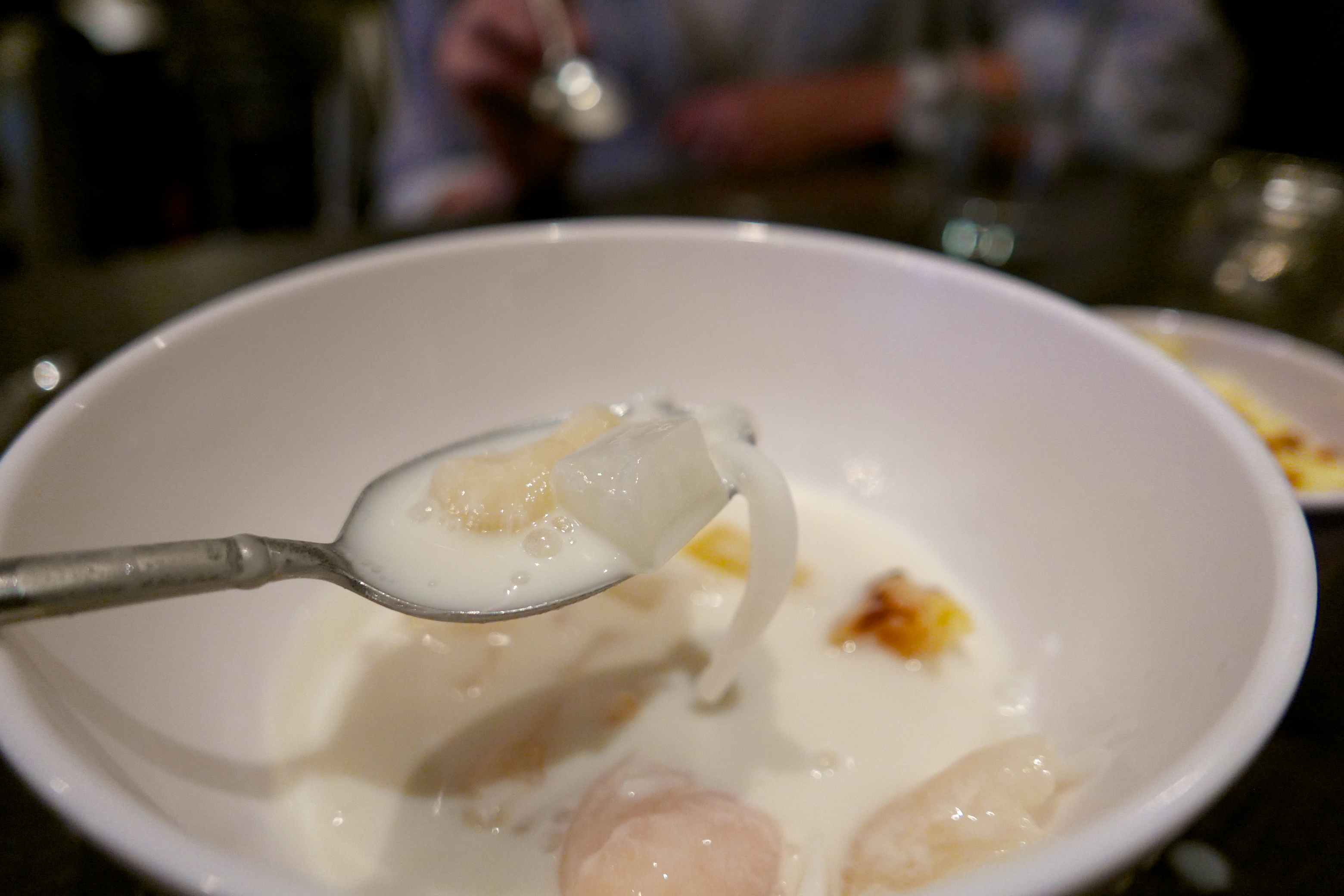 Asked for bowl to explore. I think there's lychee, mango, macapuno coconut string, nata de coco, jackfruit. Similar to Filipino dessert Halo-Halo which adds shaved ice, sweetened condensed milk, ube, red bean and corn. Yes, corn. HaiSous, Chicago, IL 07/10/16 Lou Stejskal Twitter | Facebook | Instagram